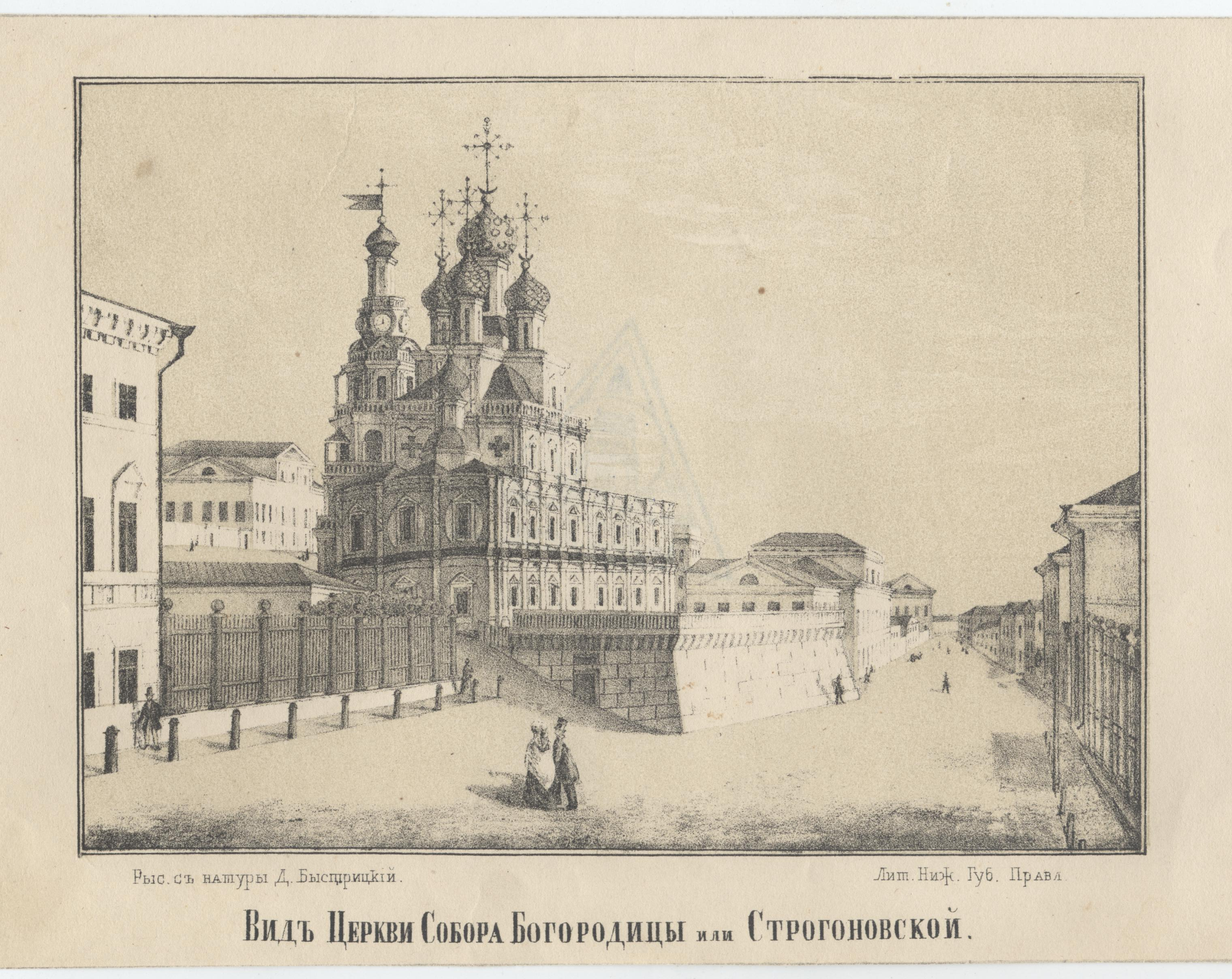 Nizhny Novgorod. Stroganov church (Church of the Nativity of Our Lady, built by the Stroganovs)